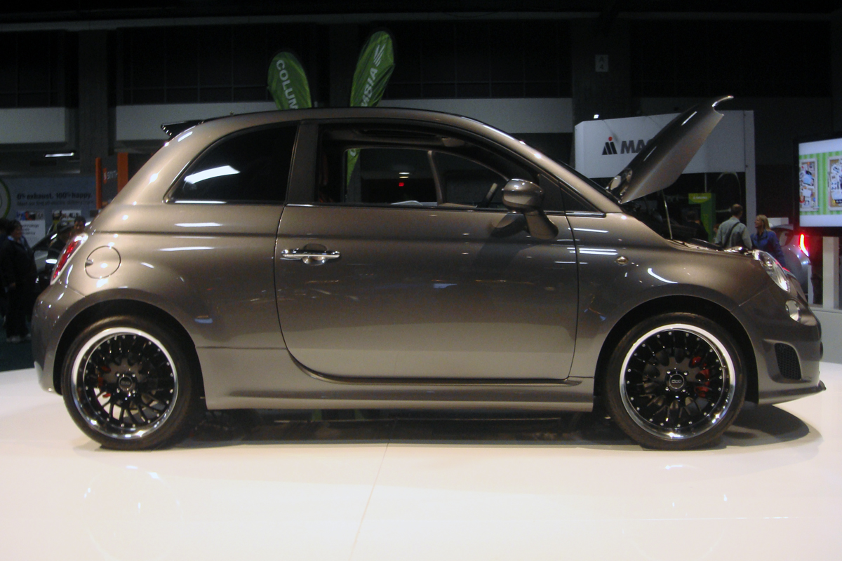 Fiat 500 Elettra BEV (Battery Electric Vehicle) at the 2010 Washington Auto Show